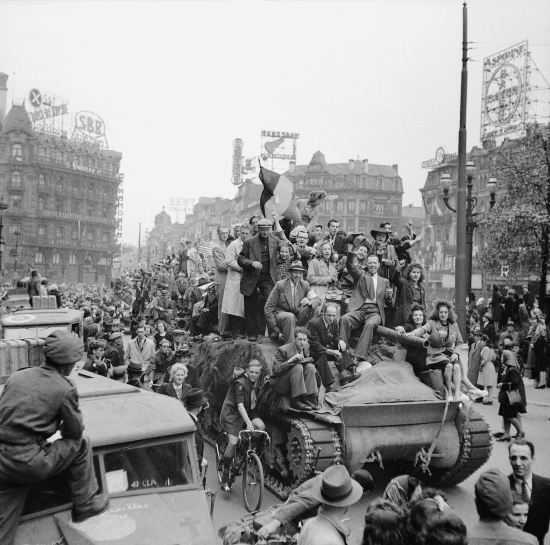 Scenes of jubilation as British troops liberate Brussels, 4 September 1944. Scenes of jubilation as British troops liberate Brussels, 4 September 1944. Civilians ride on a Sherman tank.